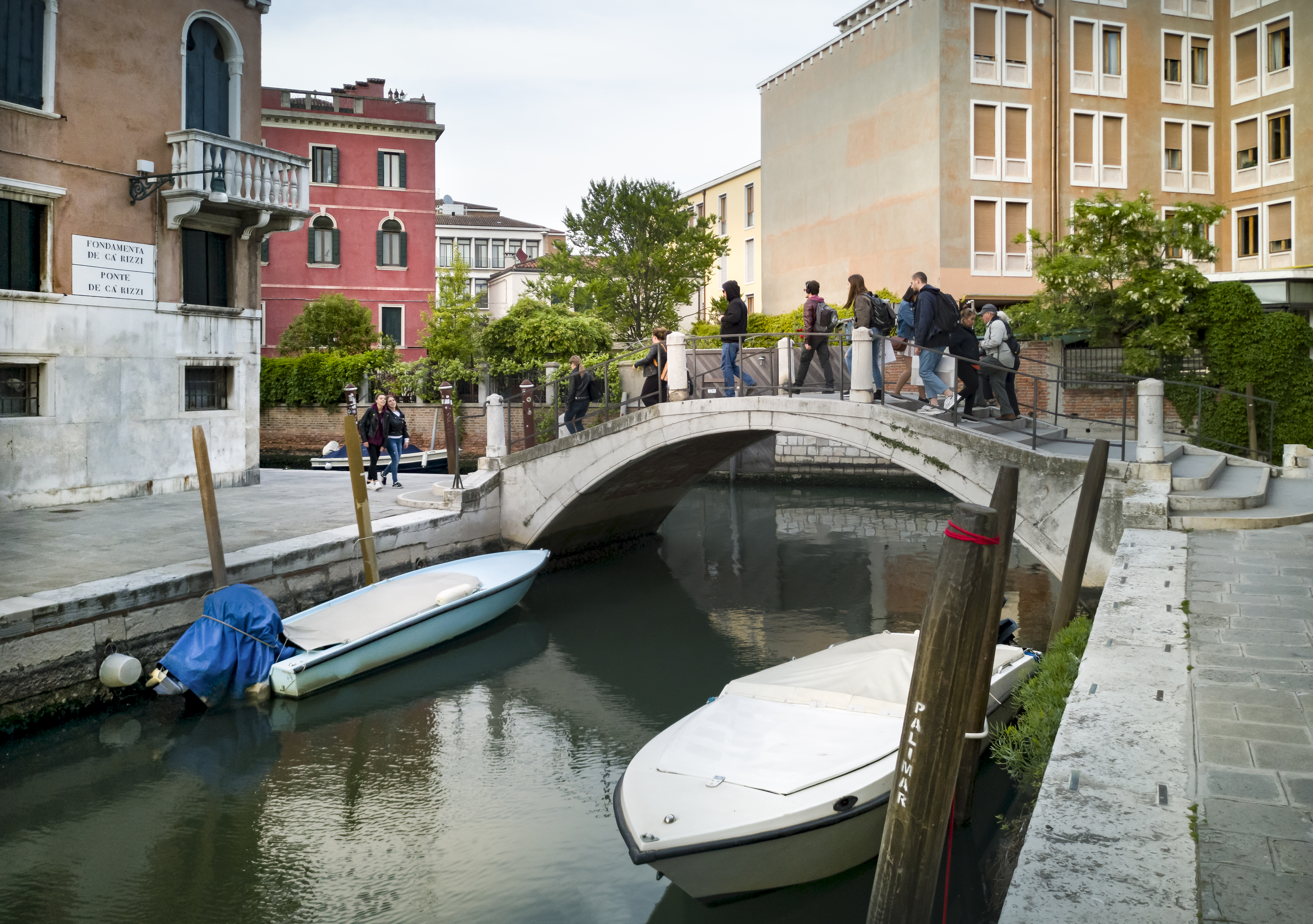 “Ponte de Ca' Rizzi” on rio di Santa Maria Maggiore Venice.